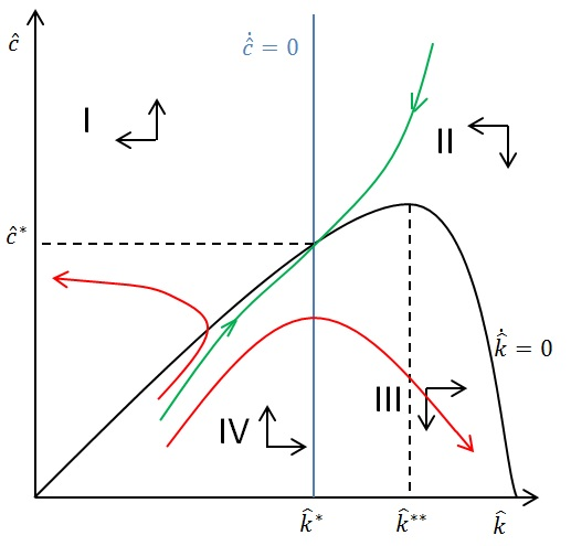 Ramsey–Cass–Koopmans model, phase diagram